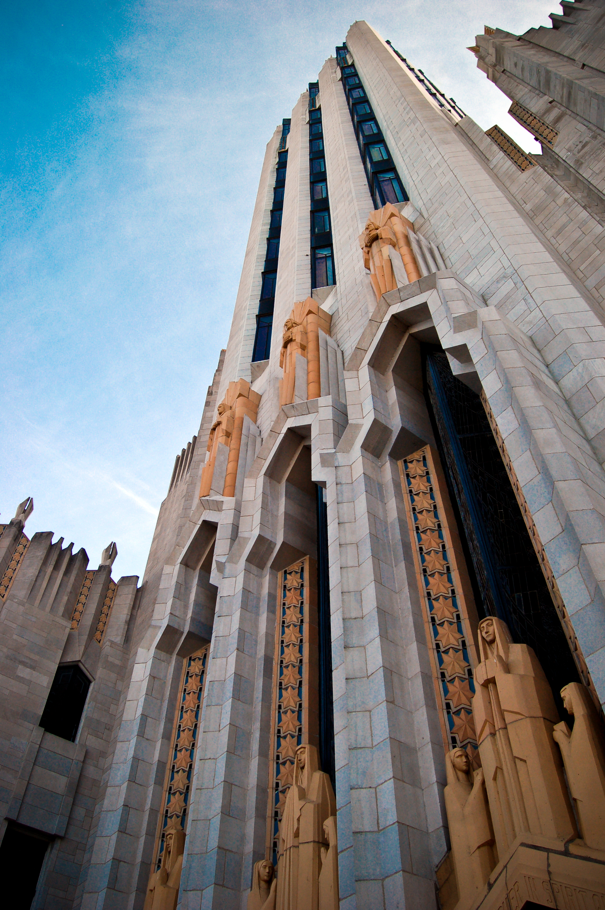 Description: Boston Avenue Methodist Tulsa, OK Credit/ Taken by: Chris Denbow Source: Chris Denbow's Flickr page You are free: to Share — to copy, distribute and transmit the work Under the following conditions: to Remix - to adapt the work Attribution. You must attribute the work in the manner specified by the author or licensor (but not in any way that suggests that they endorse you or your use of the work).